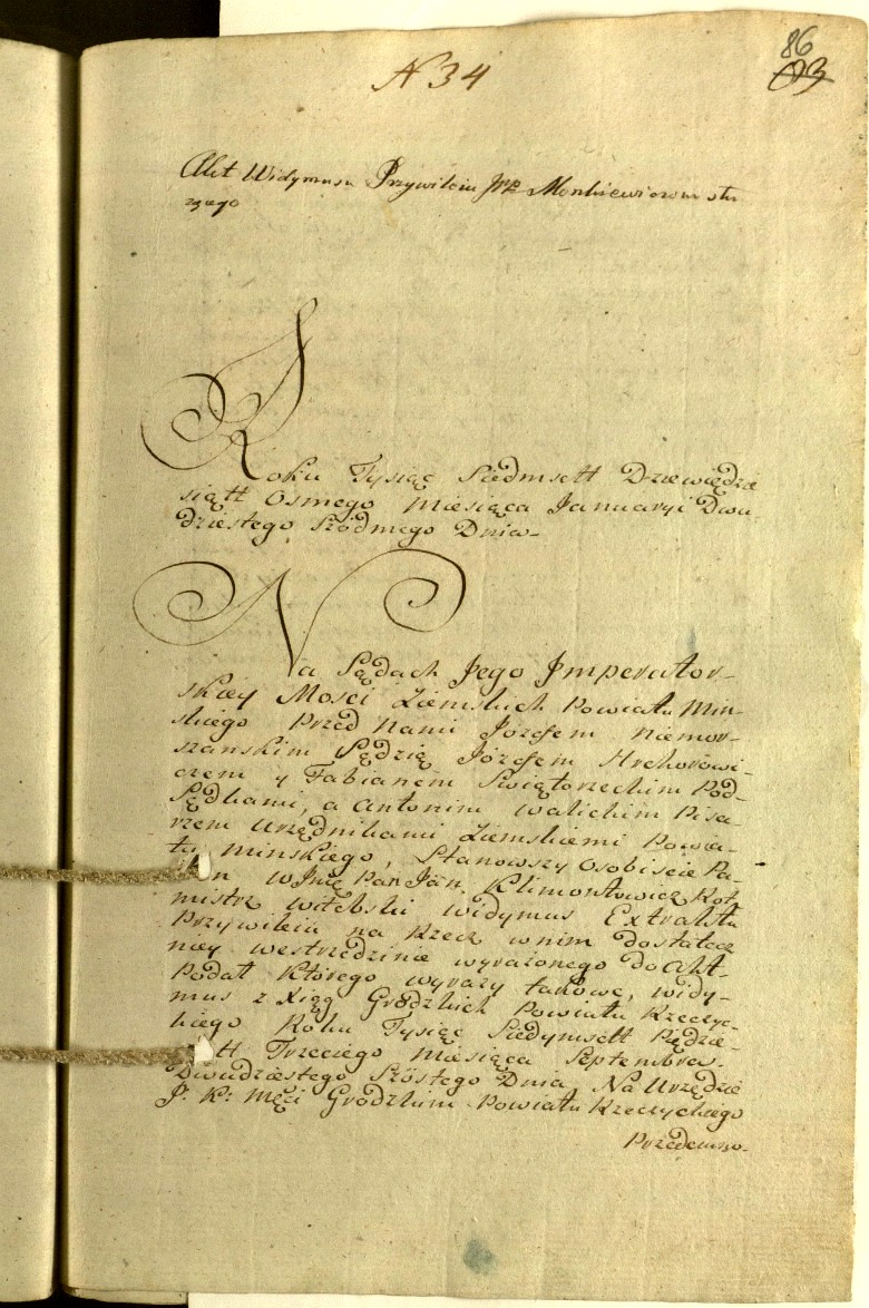 Home Benefits (Pryvilej) of the Grand Duke of Lithuania and the Polish king Sigismund II August from the July 15, 1560, issued Zhdan Mankiewicz on the estate Shatylinski Vostrau – the first written evidence of Šacilavičy (now Svietlahorsk, Homielskaja Voblasc, Belarus). Copy of 1798, in Polish (the original is not found). National Archives of the Republic of Belarus.